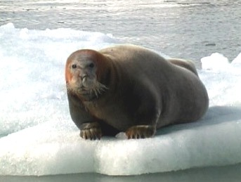 Bearded Seal on ice, Svalbard, Hornsund, 2001, Michael Haferkamp